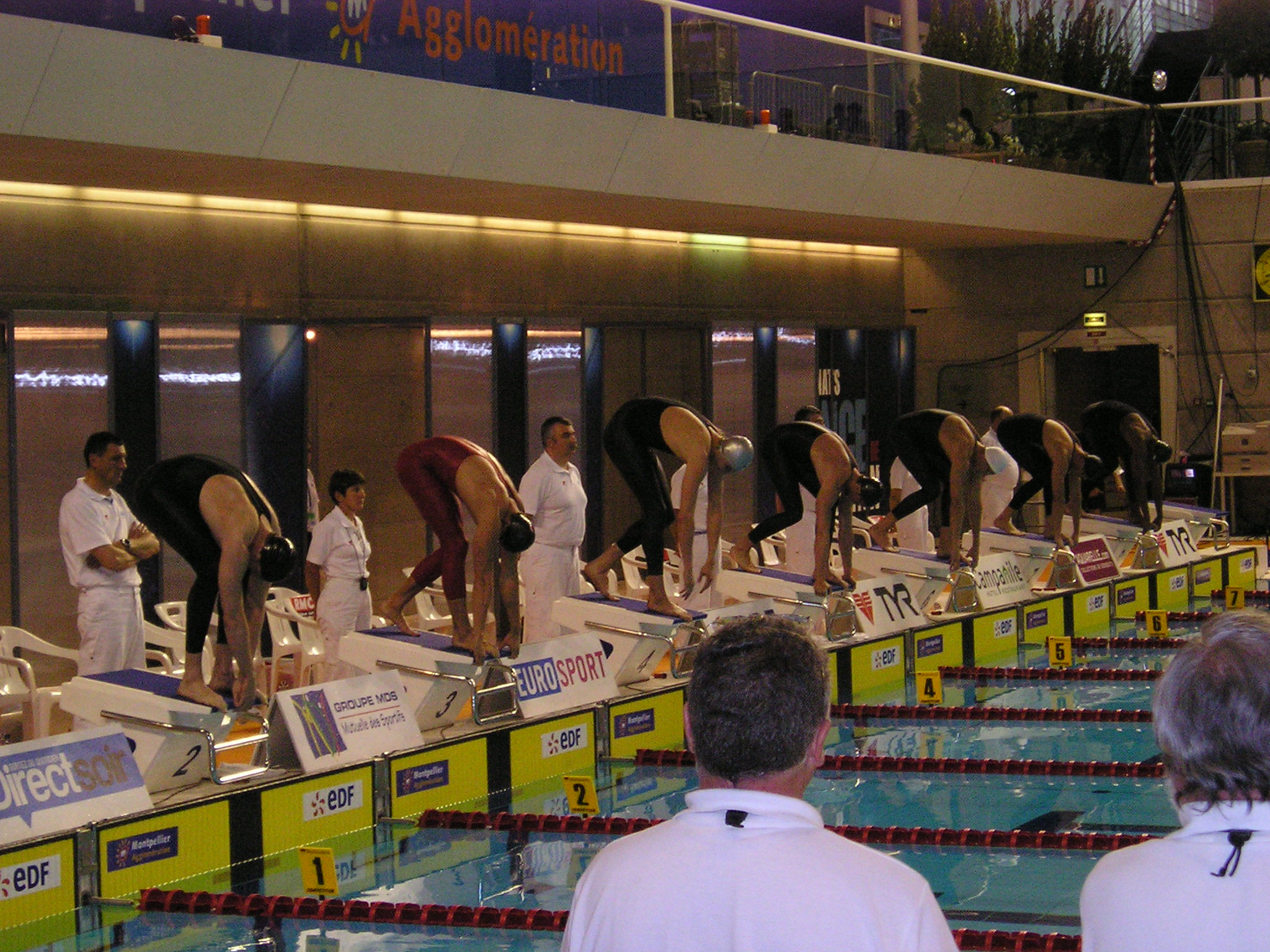 French Swimming Championships, Montpellier, 26 April 2009 afternoon: start of the 50 meters Free Style Men final, that would finish with a world record.